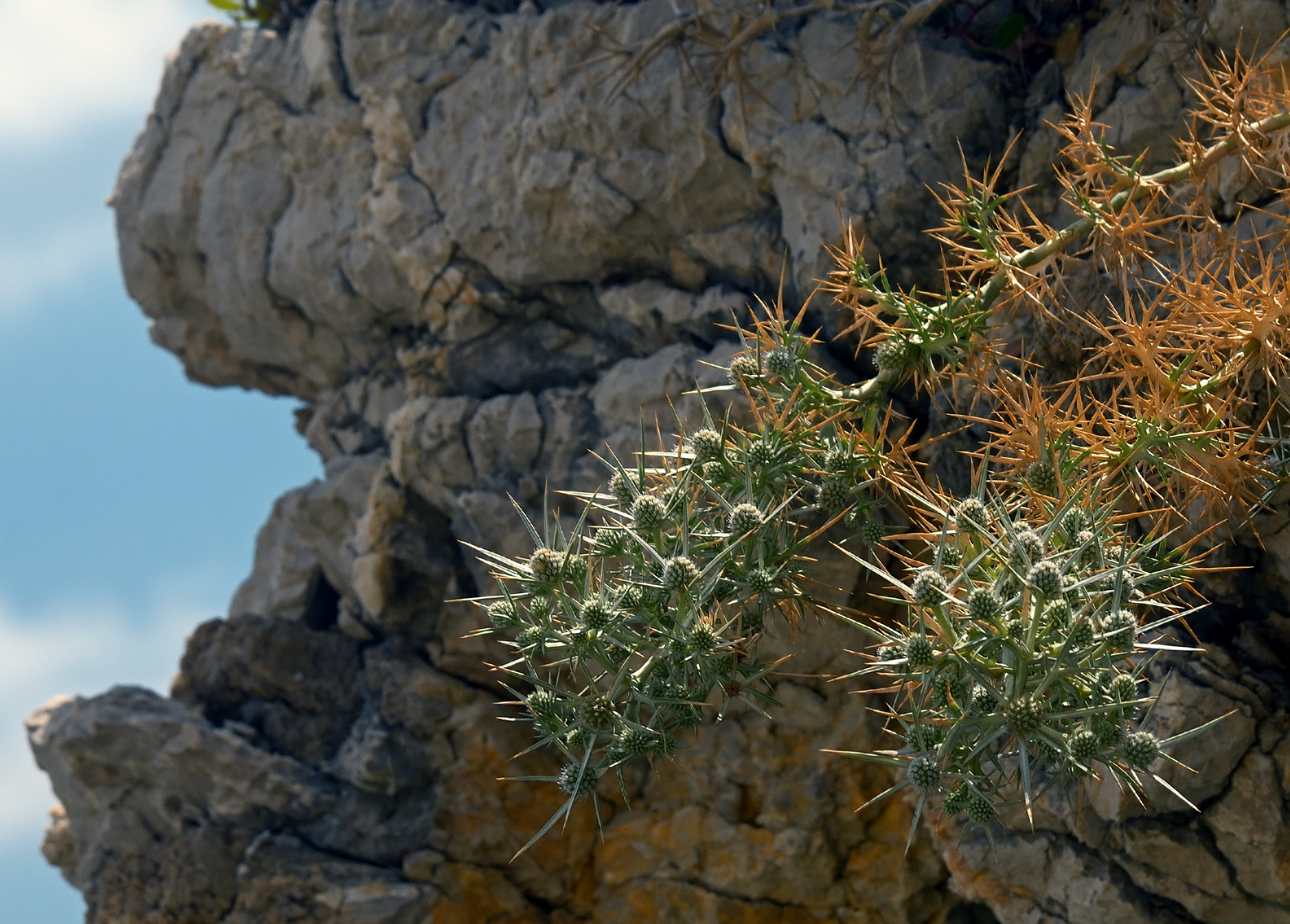 Eryngium glomeratum on Rhodes island